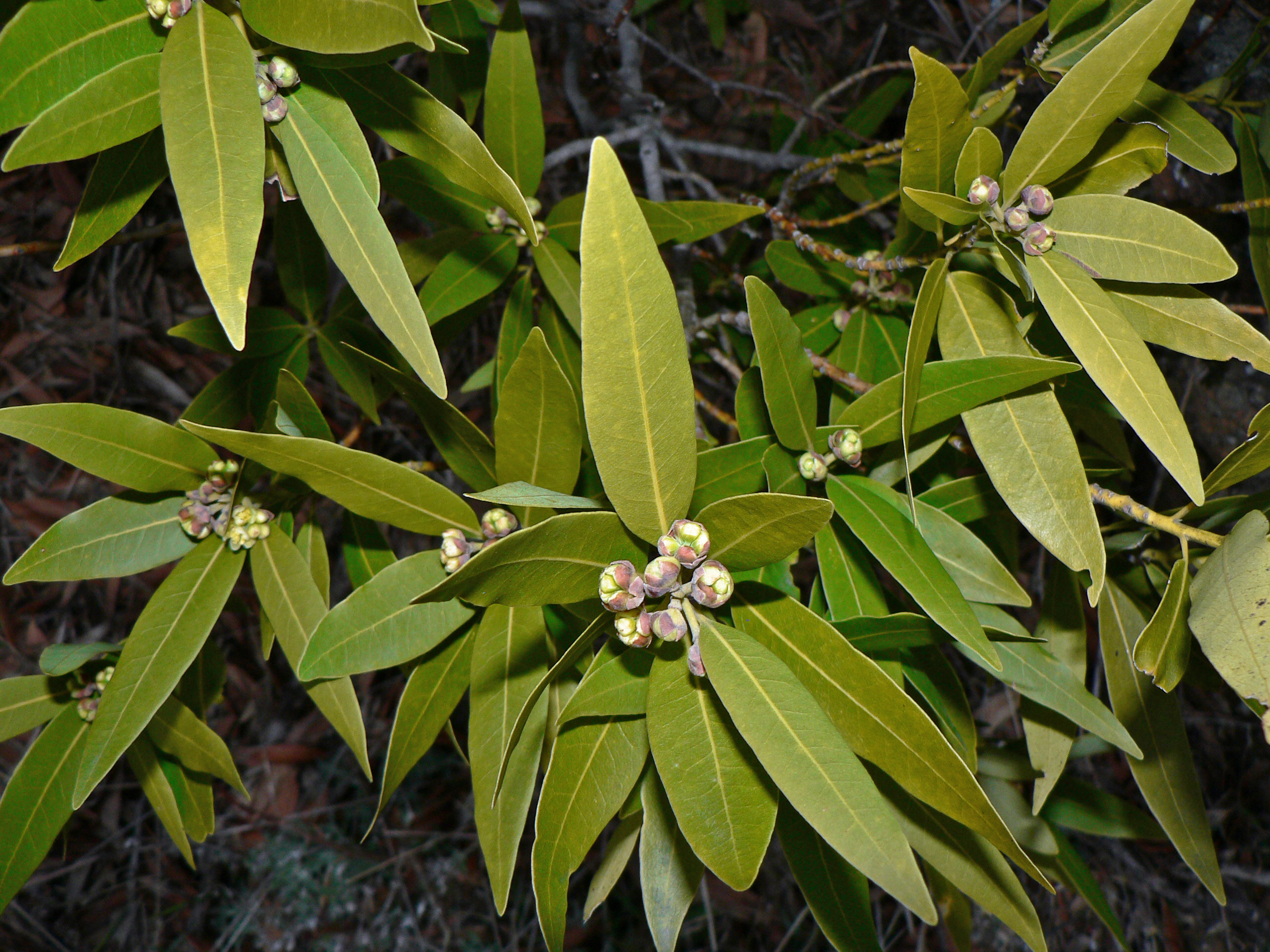 California Bay Laurel